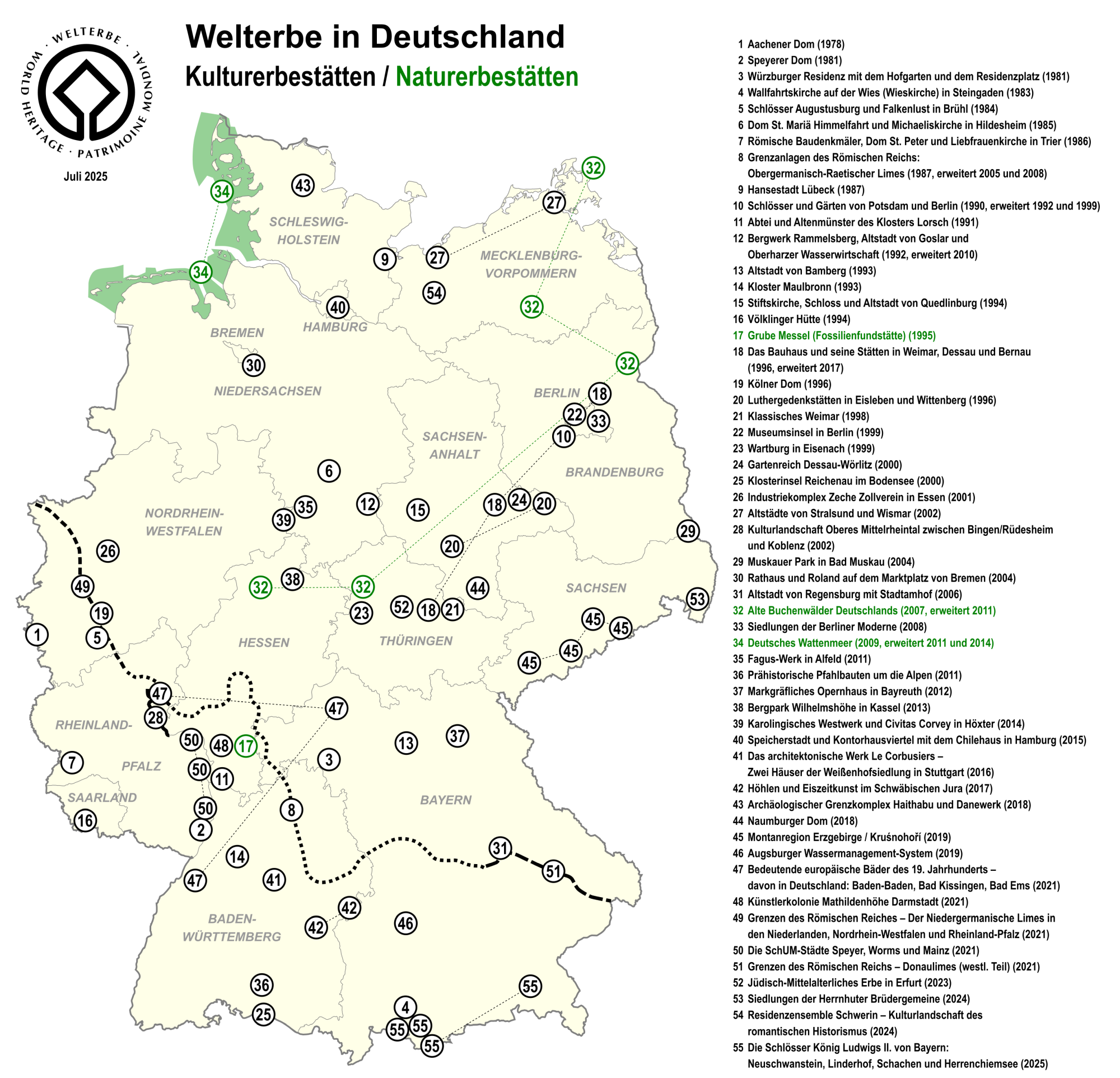 Map of World Heritage Sites in Germany